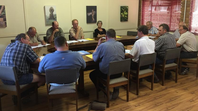 Orania Town Council meeting